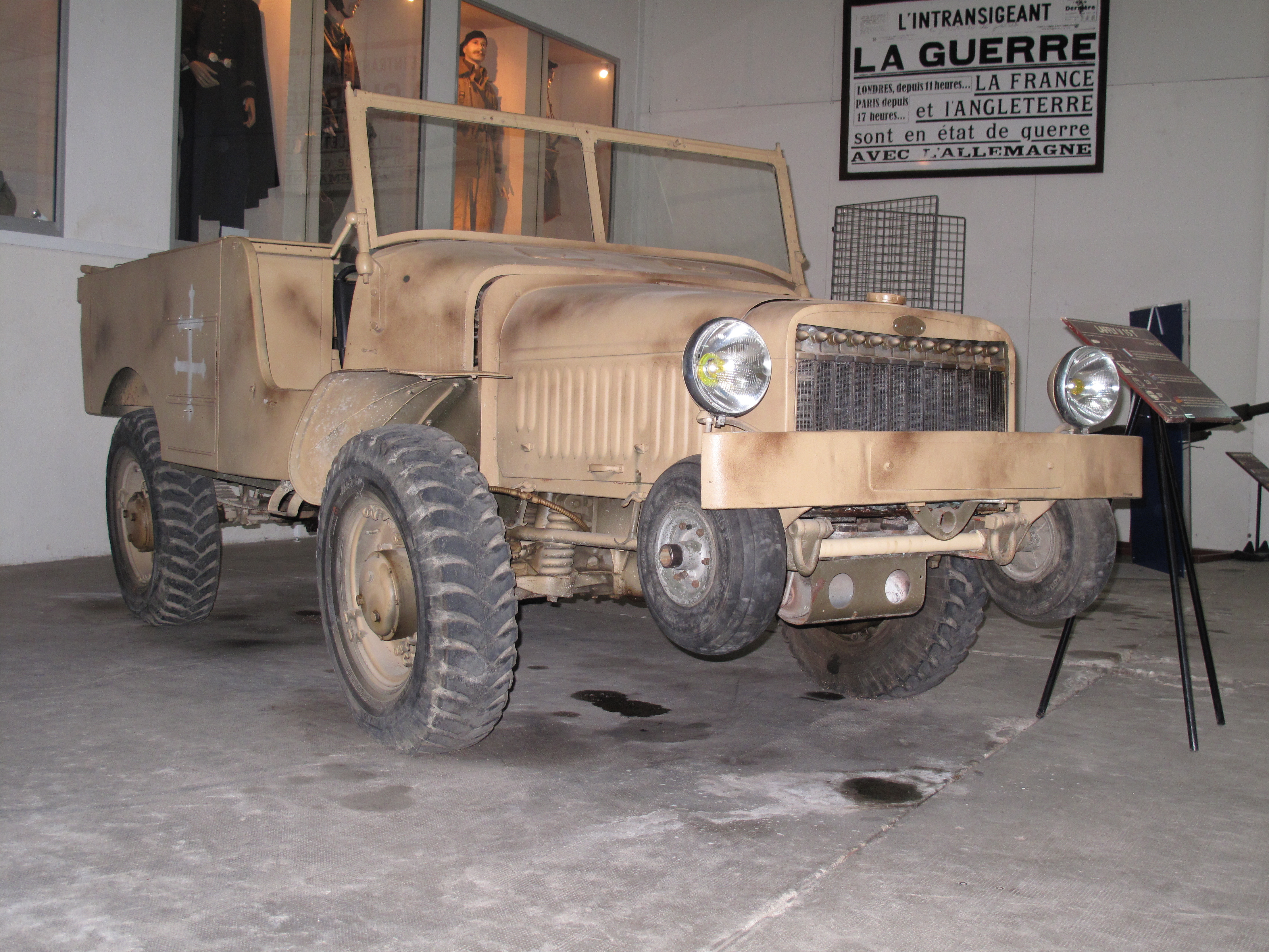 Laffly V15 T. On display at Saumur Général Estienne museum.